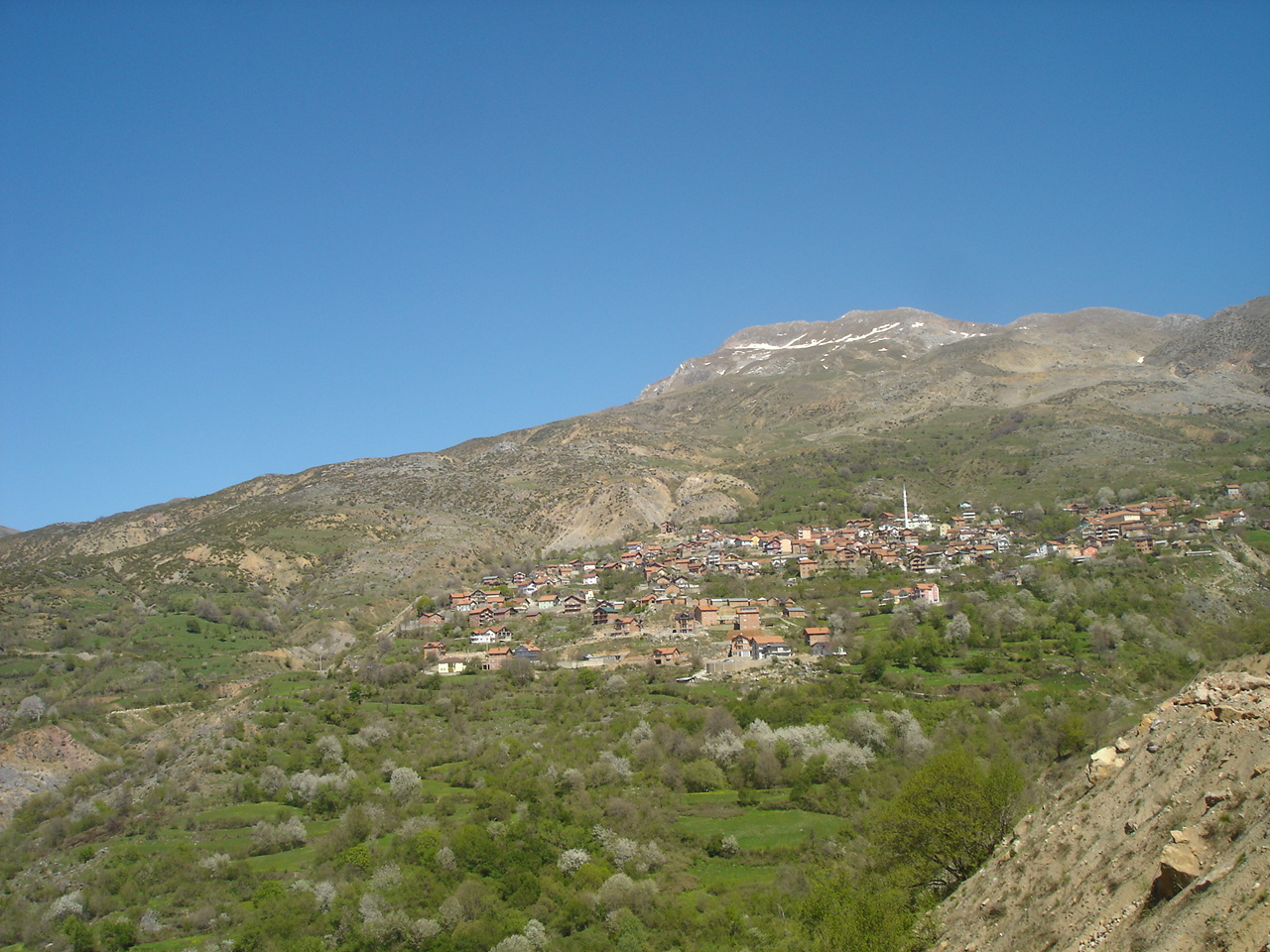 village of Novak